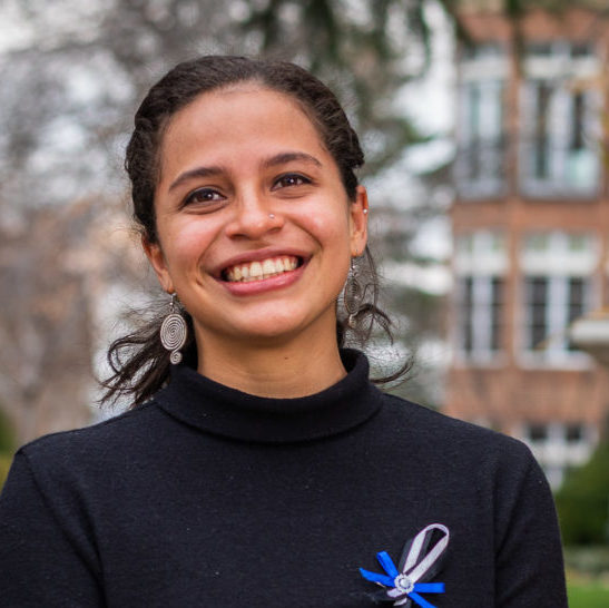 Chosen as an International Women of Courage in March 2020. Awards presented on 4 March 2020 - Amaya Coppens